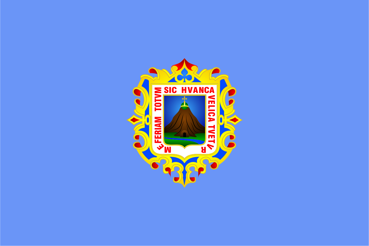 District of Huancavelica - Huancavelica - Huancavelica Region